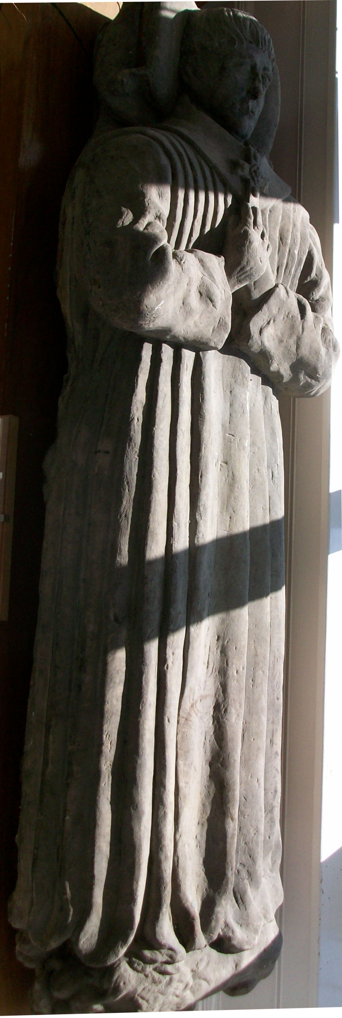 It was carved in the 15th Century and was originally in Wick Parish Church.